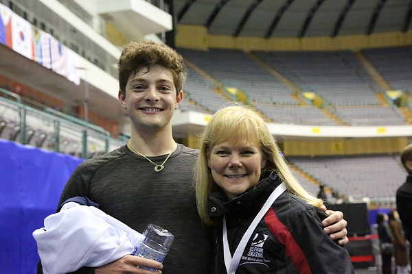 Brendan Kerry and Tammy Gambill at the 2016 Four Continents Championships